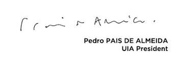 Pedro Pais de Almeida, UIA Presidente, signature.